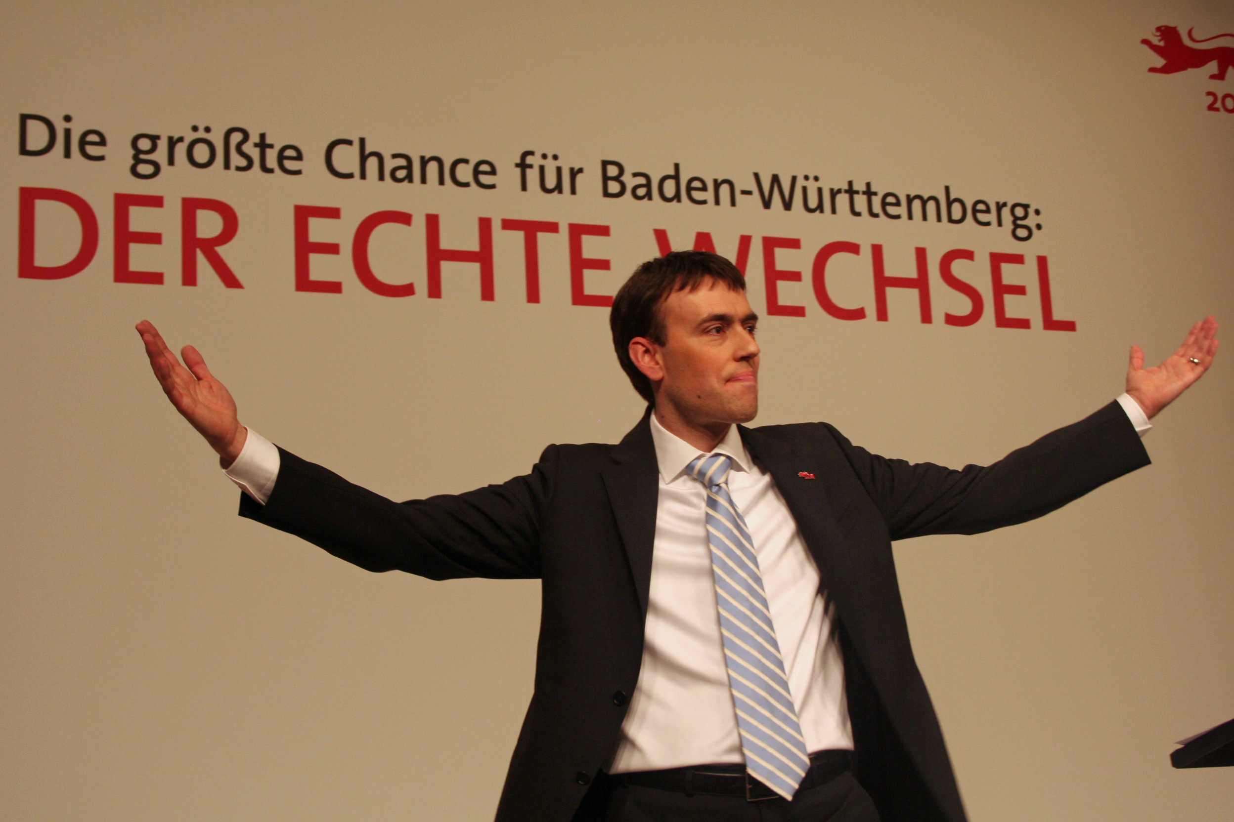 Nils Schmid (SPD)